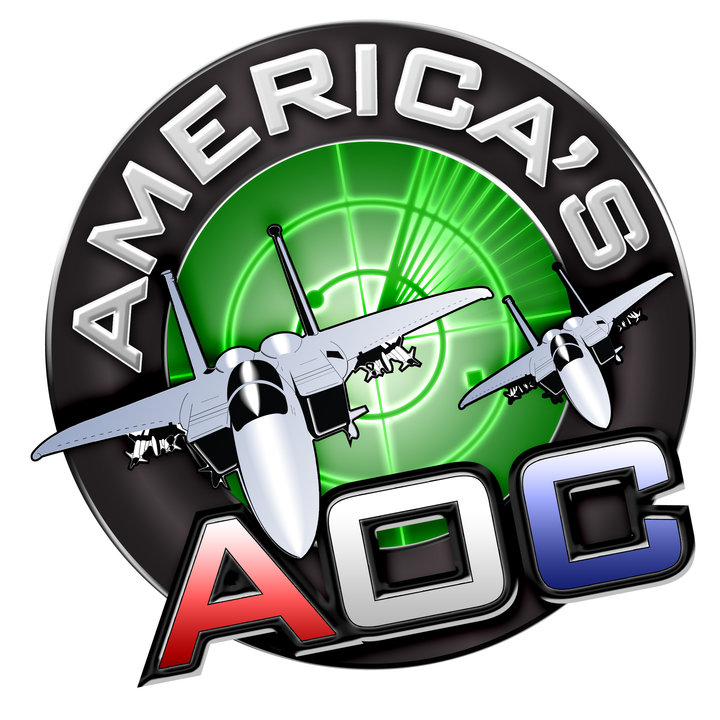 601 AOC Icon